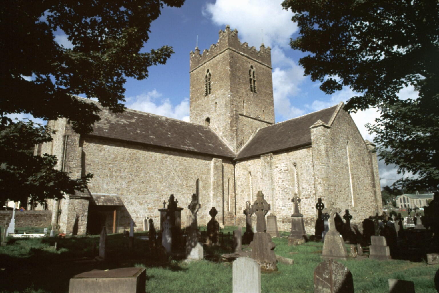 Killaloe, County Clare, Ireland St. Flannan's Cathedral